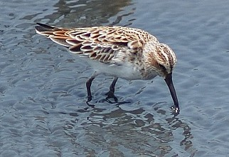 Limicola falcinellus( Front), Yunlin County, Taiwan, 2008.